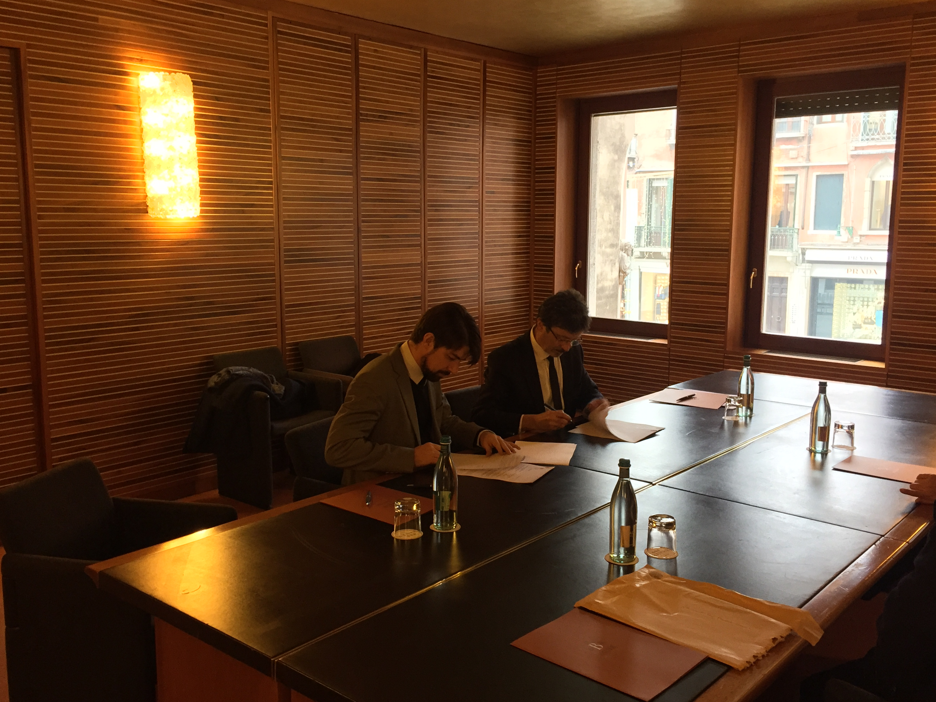 Università Ca' Foscari di Venezia - ESCP Europe partnership signing - Rettore*Dean; Albergo Bauer Venice